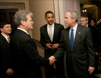 U.S. Senate bill sponsors Tom Coburn (R-OK) and Barack Obama (D-IL) greet President Bush at the signing ceremony of the Federal Funding Accountability and Transparency Act, S. 2590.